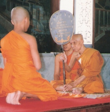 novitiate ordination in the Buddhism . Thailand, Bangkok, 1999. Own work